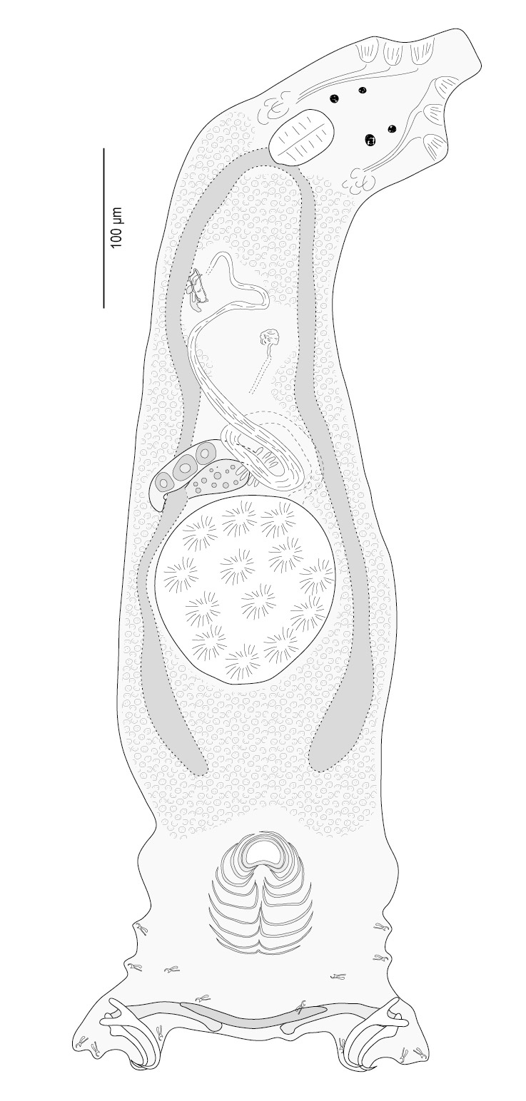 Lamellodiscus parvicornis Justine & Briand, 2011 (Monogenea, Diplectanidae), a parasite of the fish Gymnocranius euanus off New Caledonia. Composite figure, mainly from holotype. Original drawing by Jean-Lou Justine. Species described in the article: Justine, J.-L. & Briand, M. J. 2010: Three new species, Lamellodiscus tubulicornis n. sp., L. magnicornis n. sp. and L. parvicornis n. sp. (Monogenea: Diplectanidae) from Gymnocranius spp. (Lethrinidae: Monotaxinae) off New Caledonia, with proposal of the new morphological group ‘tubulicornis’ within Lamellodiscus Johnston & Tiegs, 1922. Systematic Parasitology, 75, 159-179.